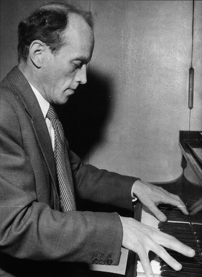 Photograph of the Finnish composer Einar Englund (1916–1999).